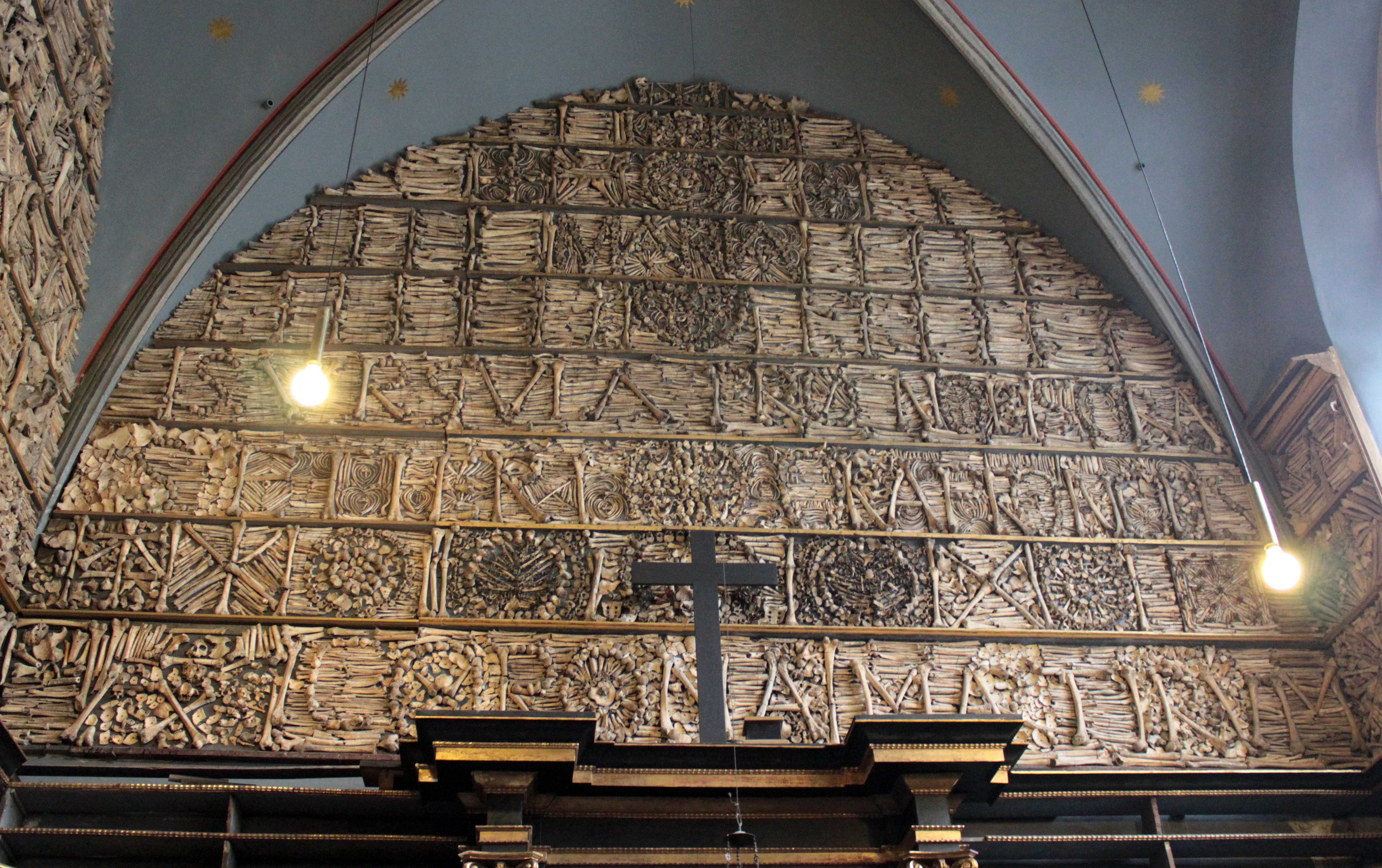 One of the walls containing carefully arranged bones in the Golden Chamber of the Basilica of St. Ursula in Cologne, Germany.